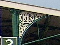 Isle of Wight Railway monogram on canopy at Ryde St John's Road.